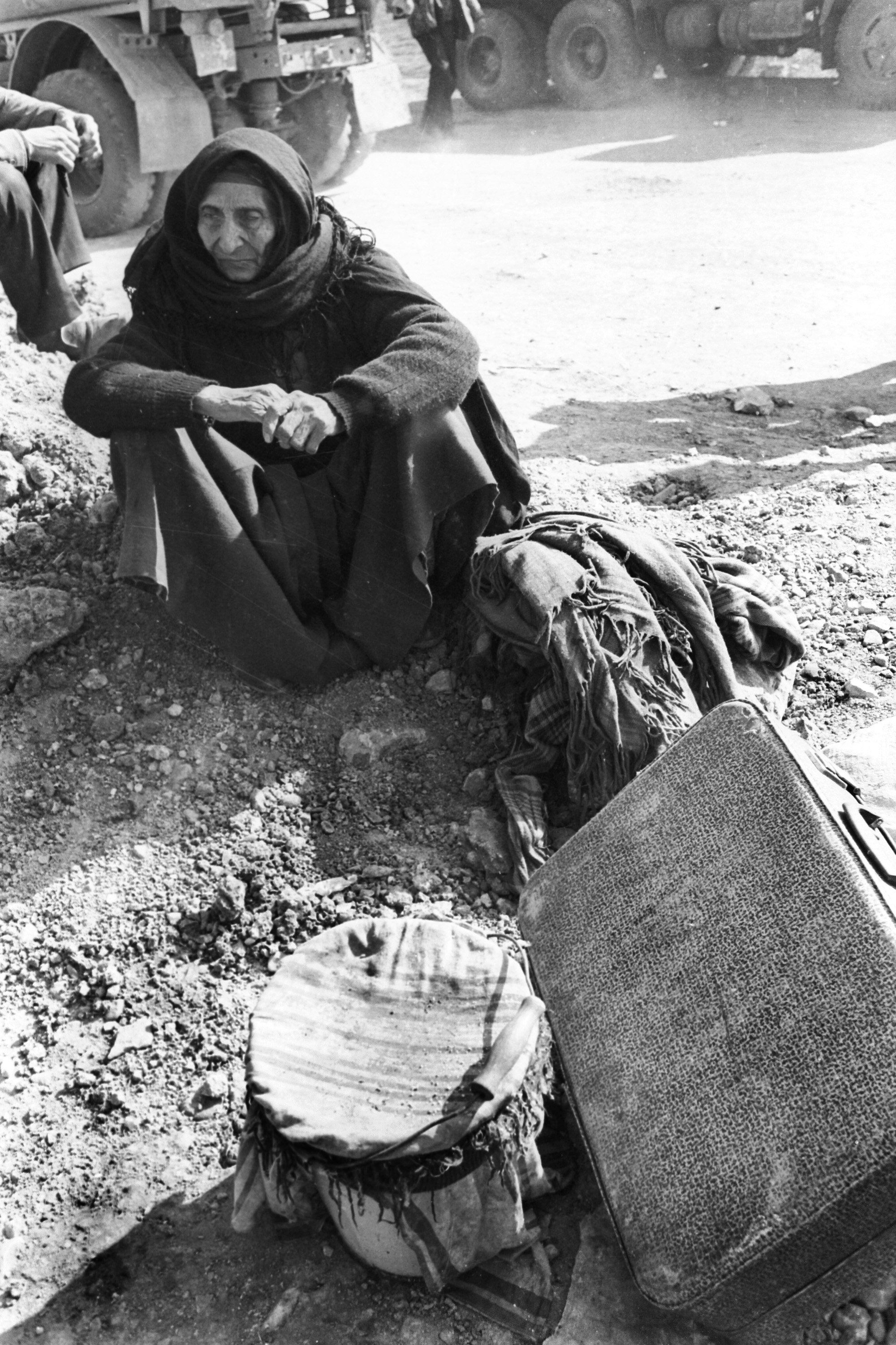 Azerbaijani refugees from Kalbajar.